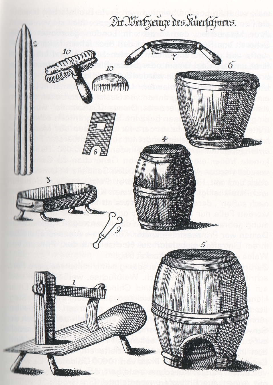 Furrier's tools